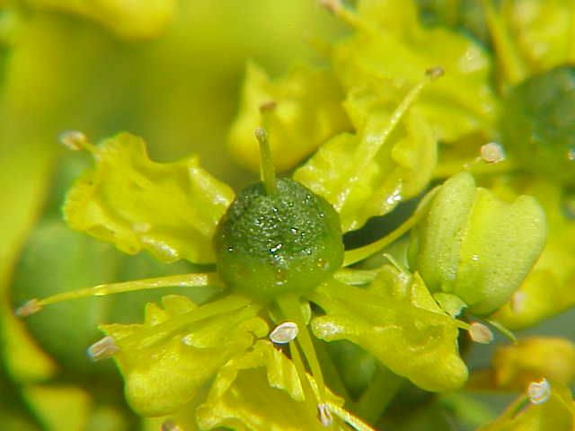 Species: Ruta chalepensis Family: Rutaceae Image No. 11